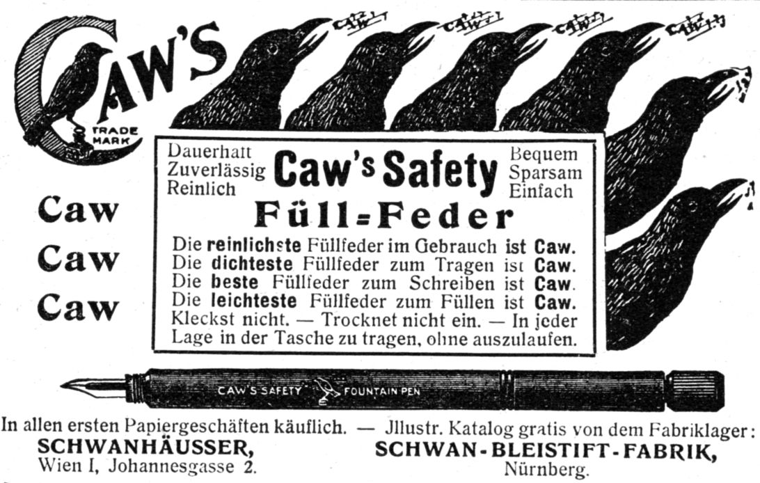 Advertisement for the Caw's Safety fountain pen, by Schwanhäusser (Vienna) and Schwan-Pencil-Fabrik (Nuremberg).